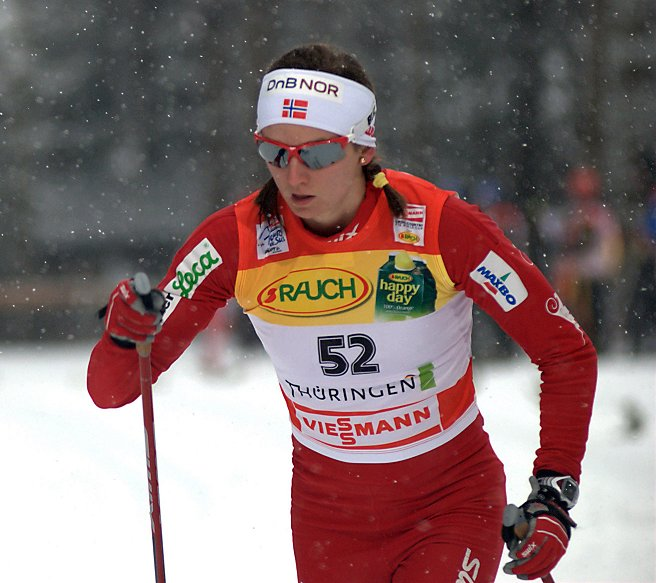 Celine Brun-Lie at the Tour de Ski 2010 in Oberhof